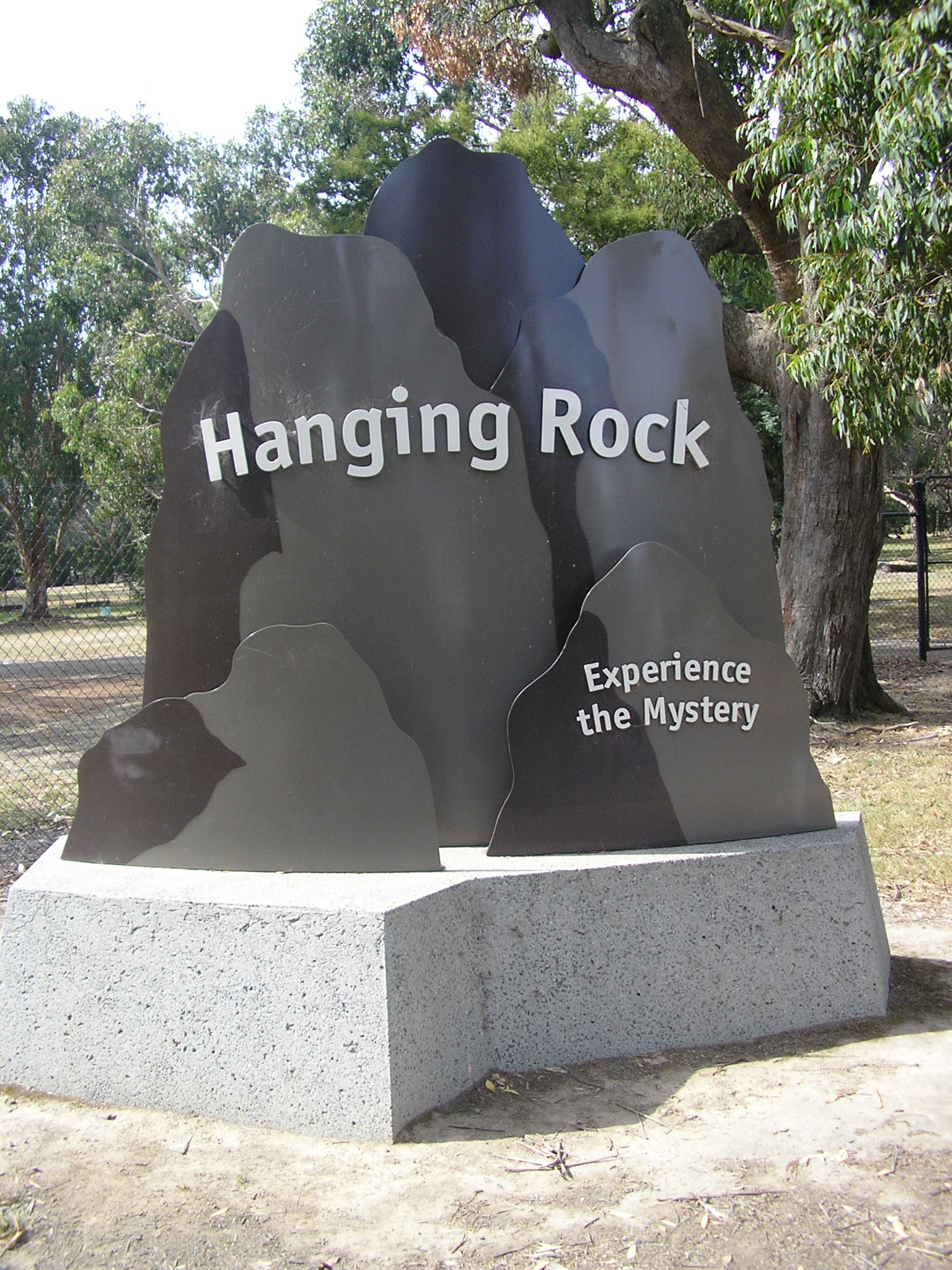 Entrance - Hanging Rock, Victoria, Australia